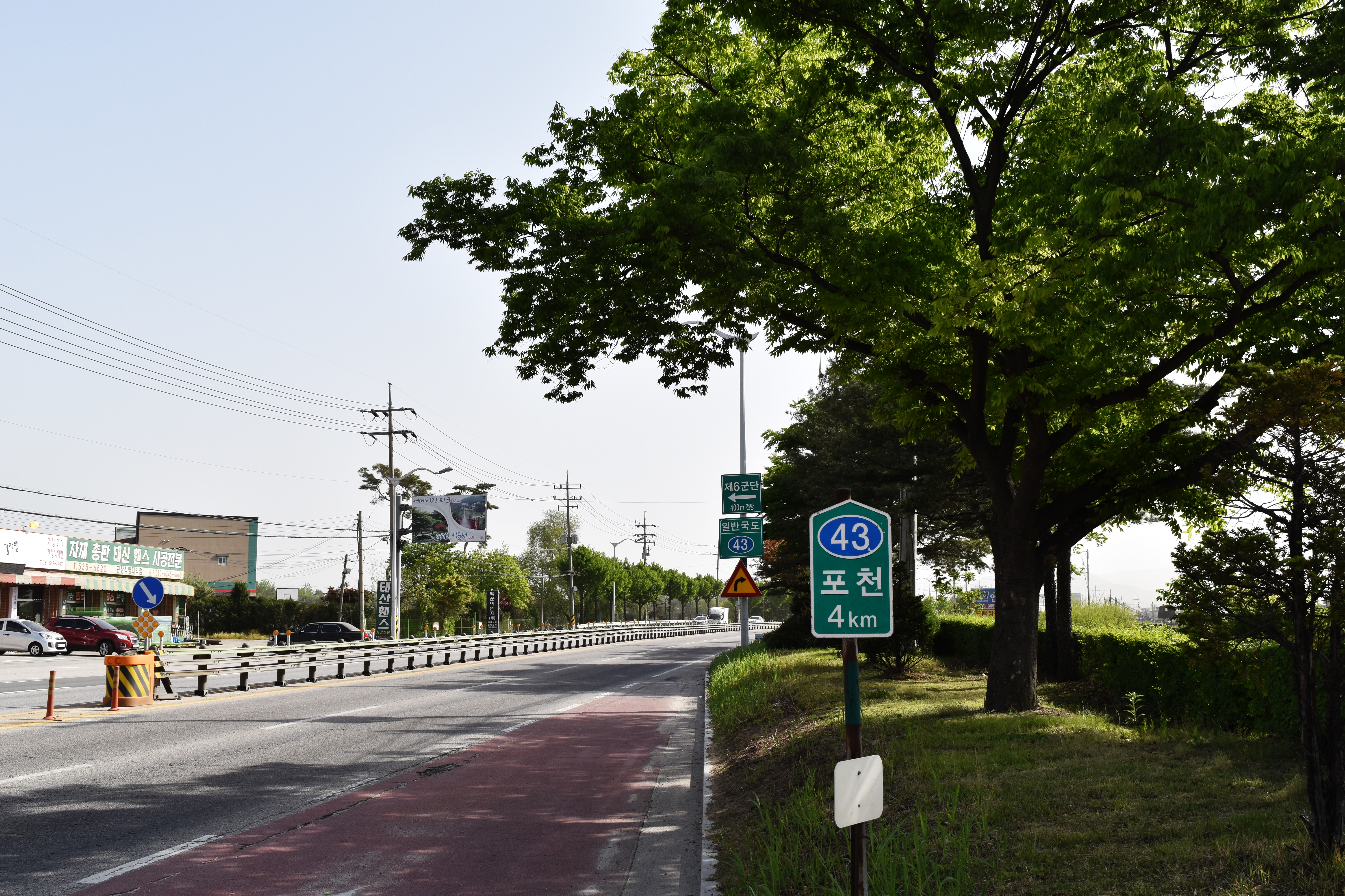 Korean National Road Number 43 through nearby Pocheon